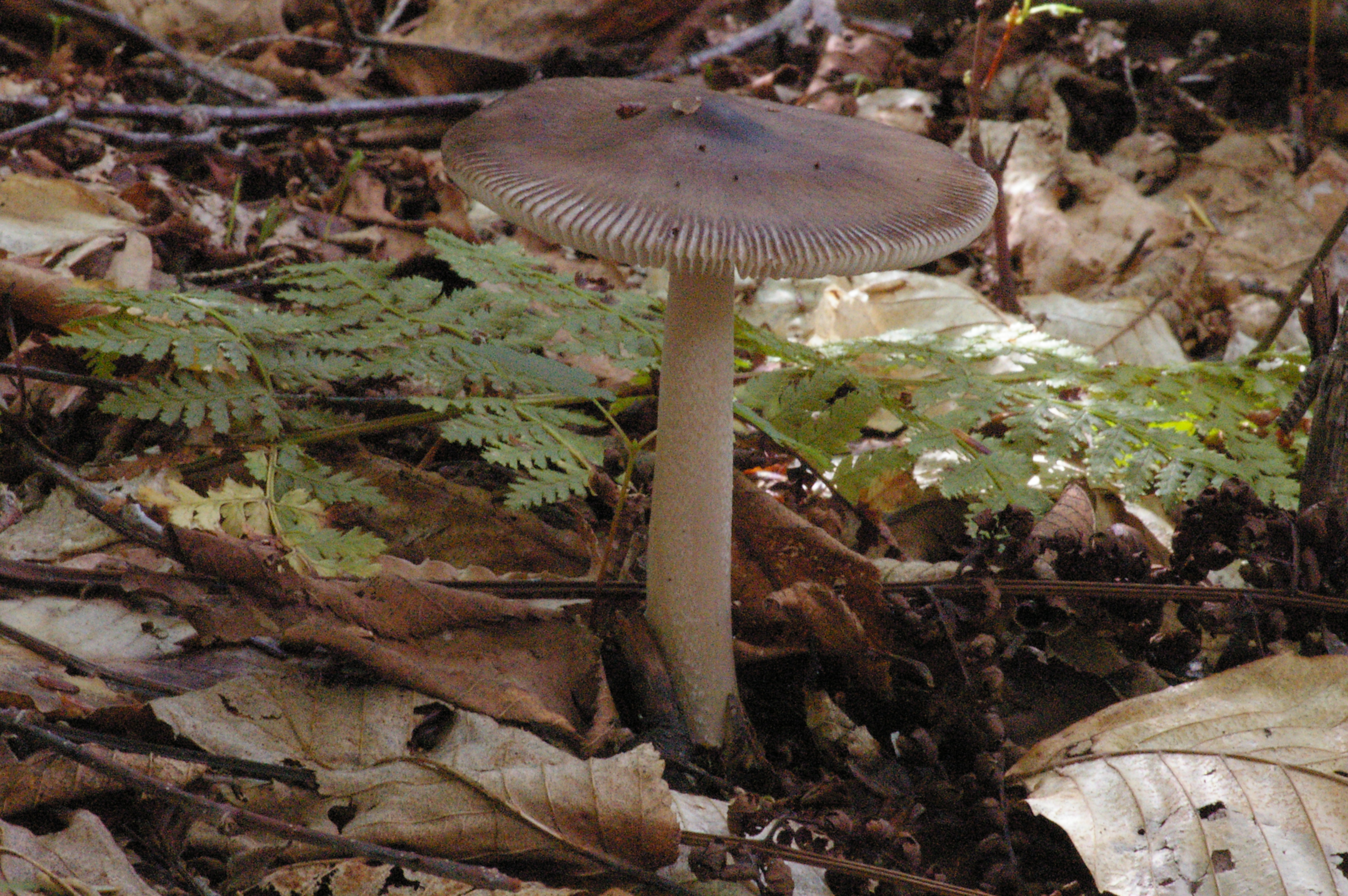 Amanita vaginata (Bull. : Fr.) Lam. Location: Raquette Lake, Hamilton Co., New York, USA Observation Notes: Identified at the Field Mycology course given by Tim Baroni July, 2007 For more information about this, see the observation page at Mushroom Observer.